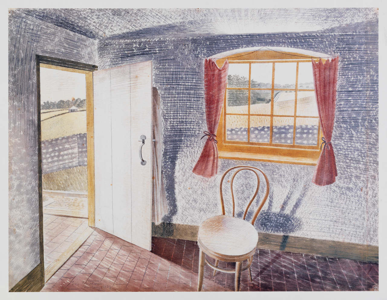 Now at the Fry Art Gallery (accession no. 857). 349 x 459 mm; print reproduction. Furlongs was a cottage on the South Downs, near Glynde and Lewes, which was occupied by Ravilious' friend Peggy Angus.